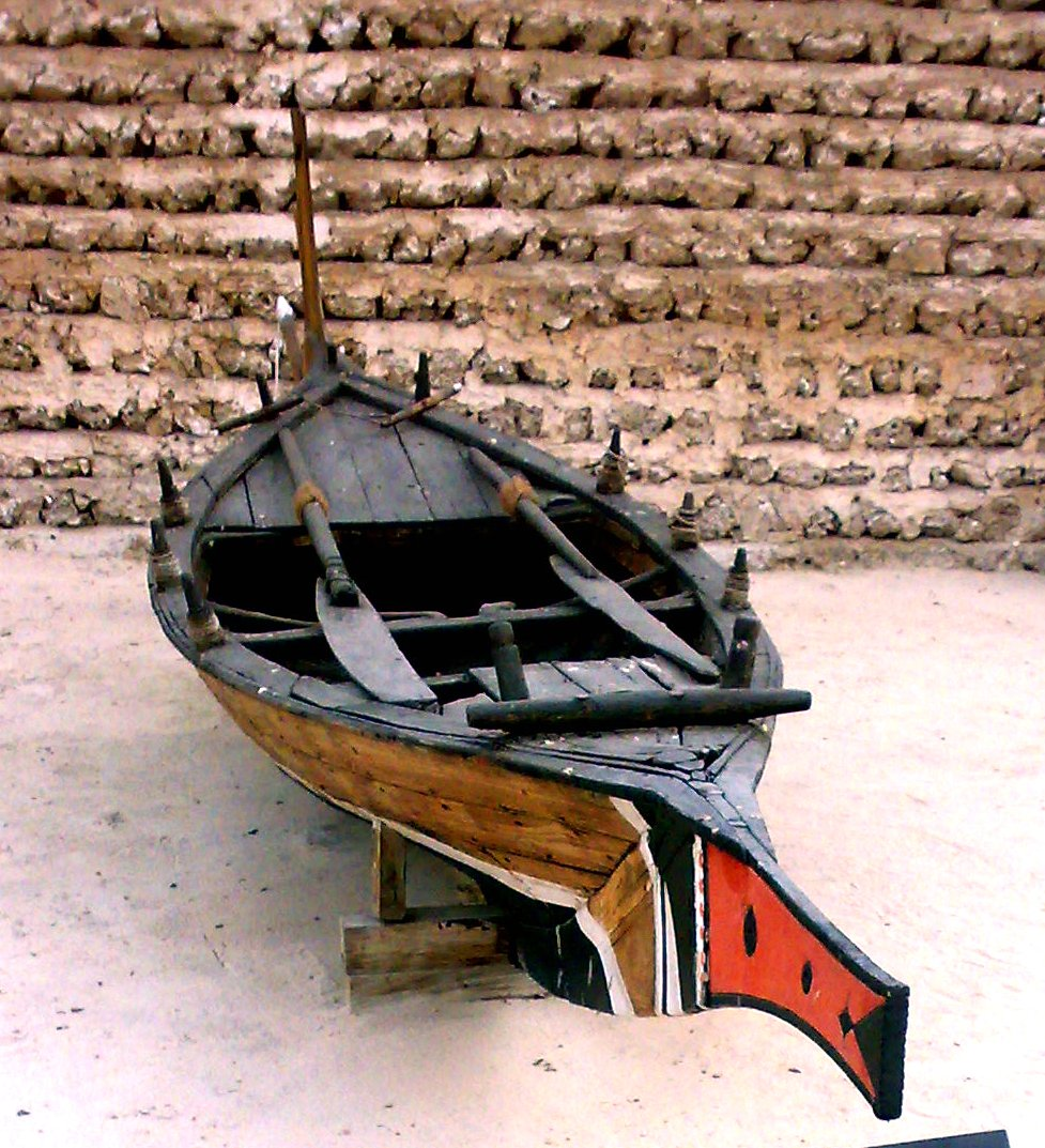 Boat from Dubai, probably 19th century, at display in the Dubai Museum (Al Fahidi Fort), UAE